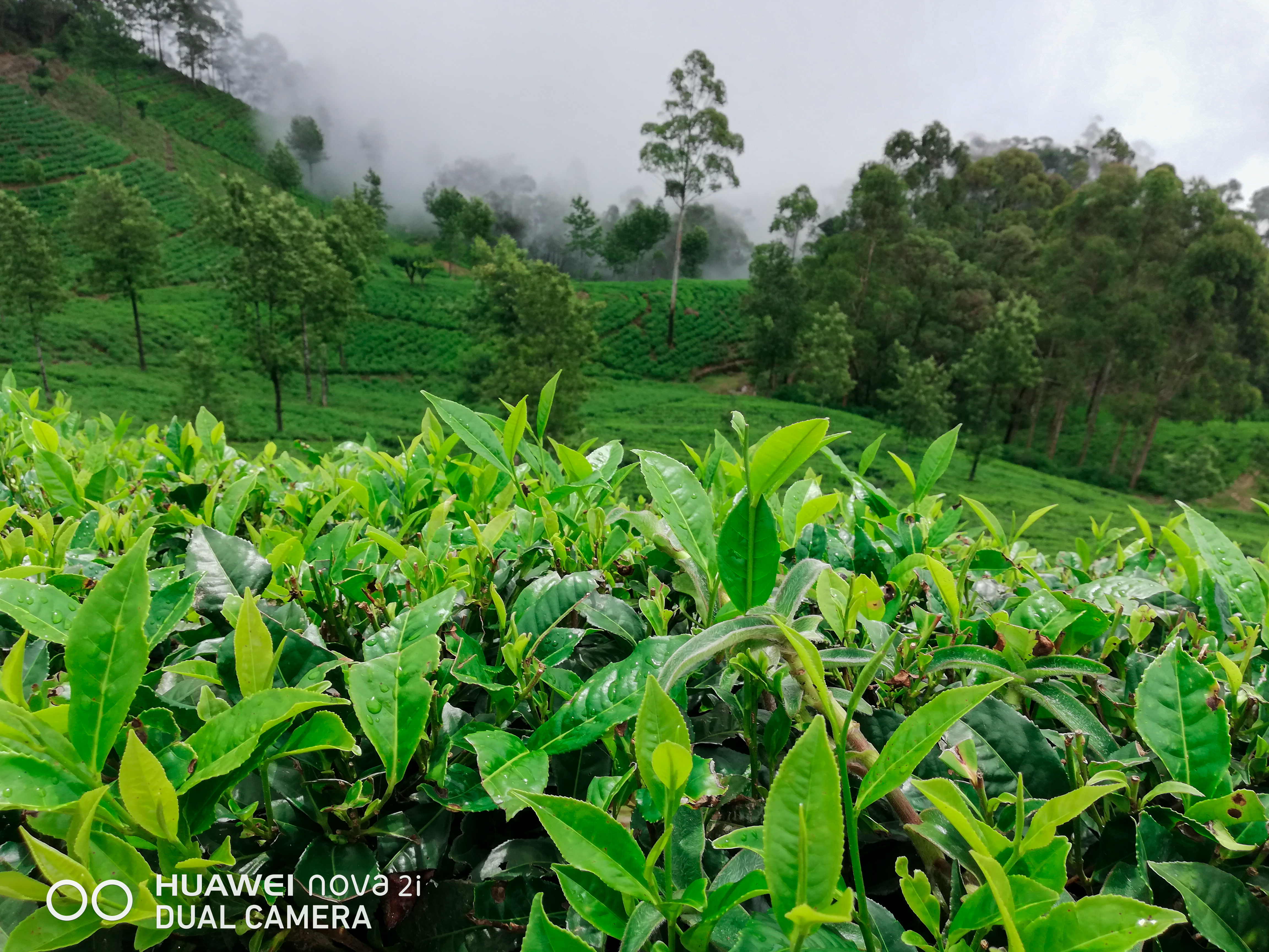 lipton seat tea